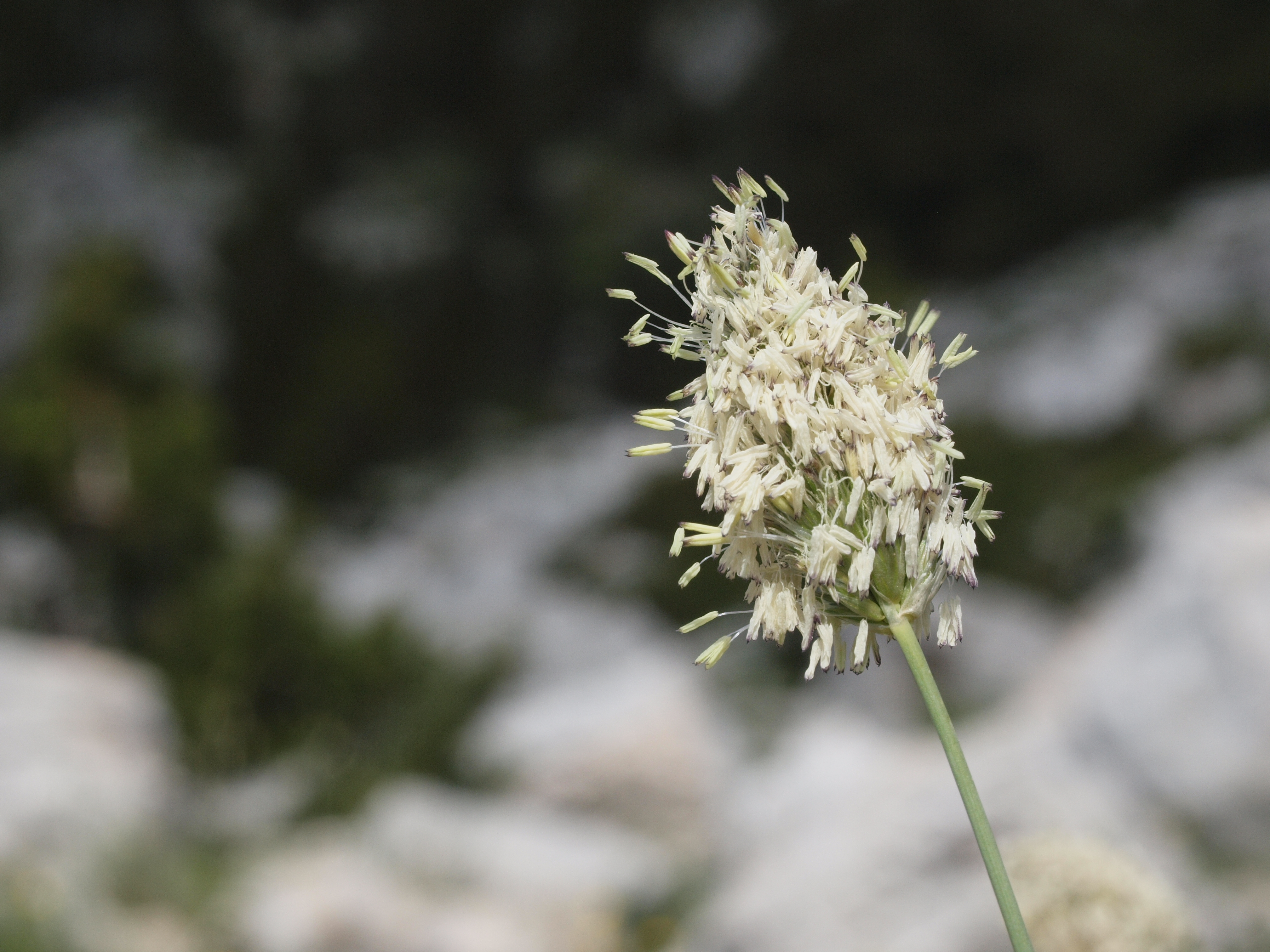 Sesleria robusta